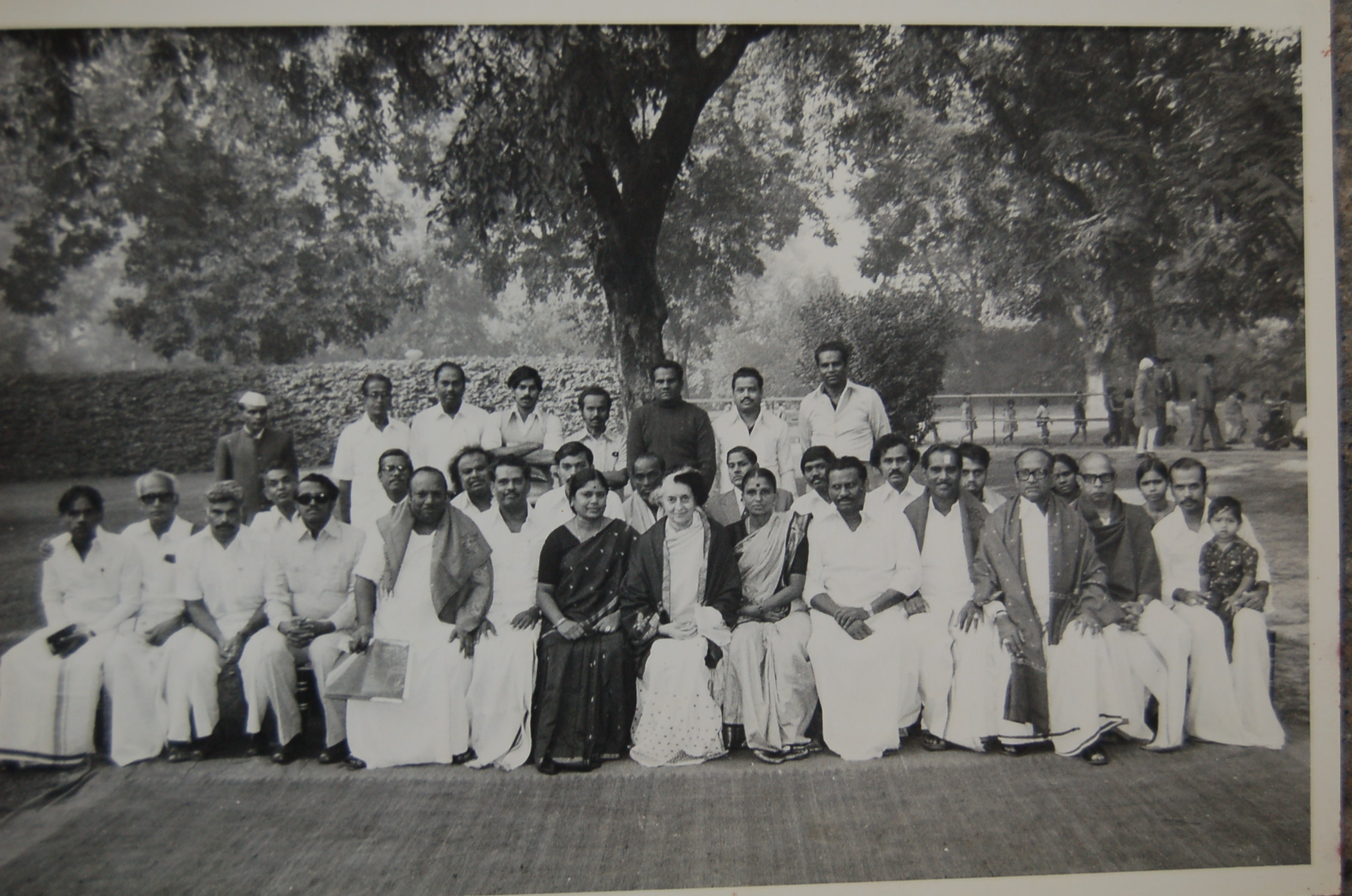 S. Alagarsamy with the Prime Minister of India Smt Indira Gandhi